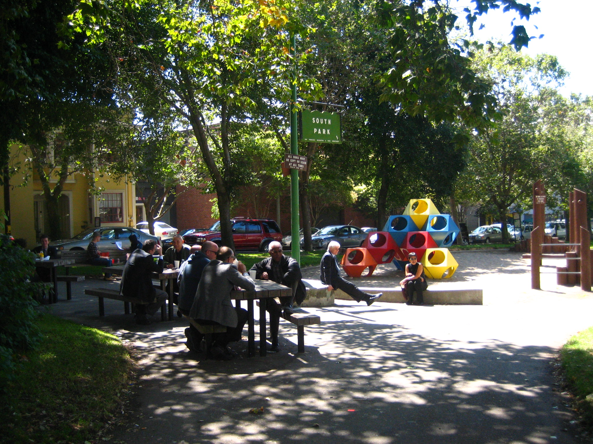 South Park, San Francisco, California